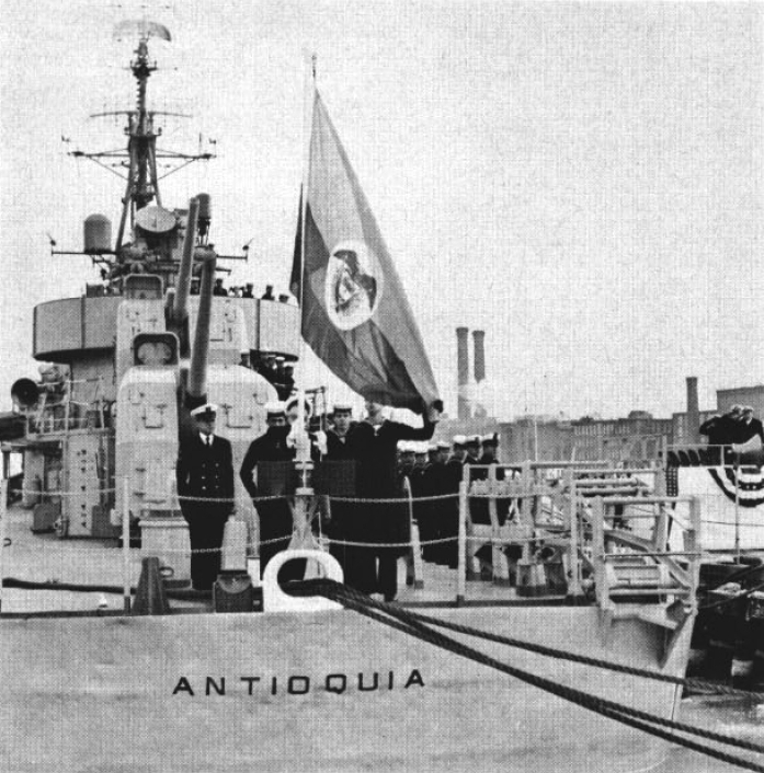 The former U.S. Navy destroyer USS Hale (DD-642) is transferred to Colombia on 23 January 1961 at The Boston Naval Shipyard, Massachusetts (USA). The transfer was mande under the Military Assistance Program and Hale served as ARC Antioquia (DD-01) until she was stricken on 20 December 1973 and broken up for scrap.